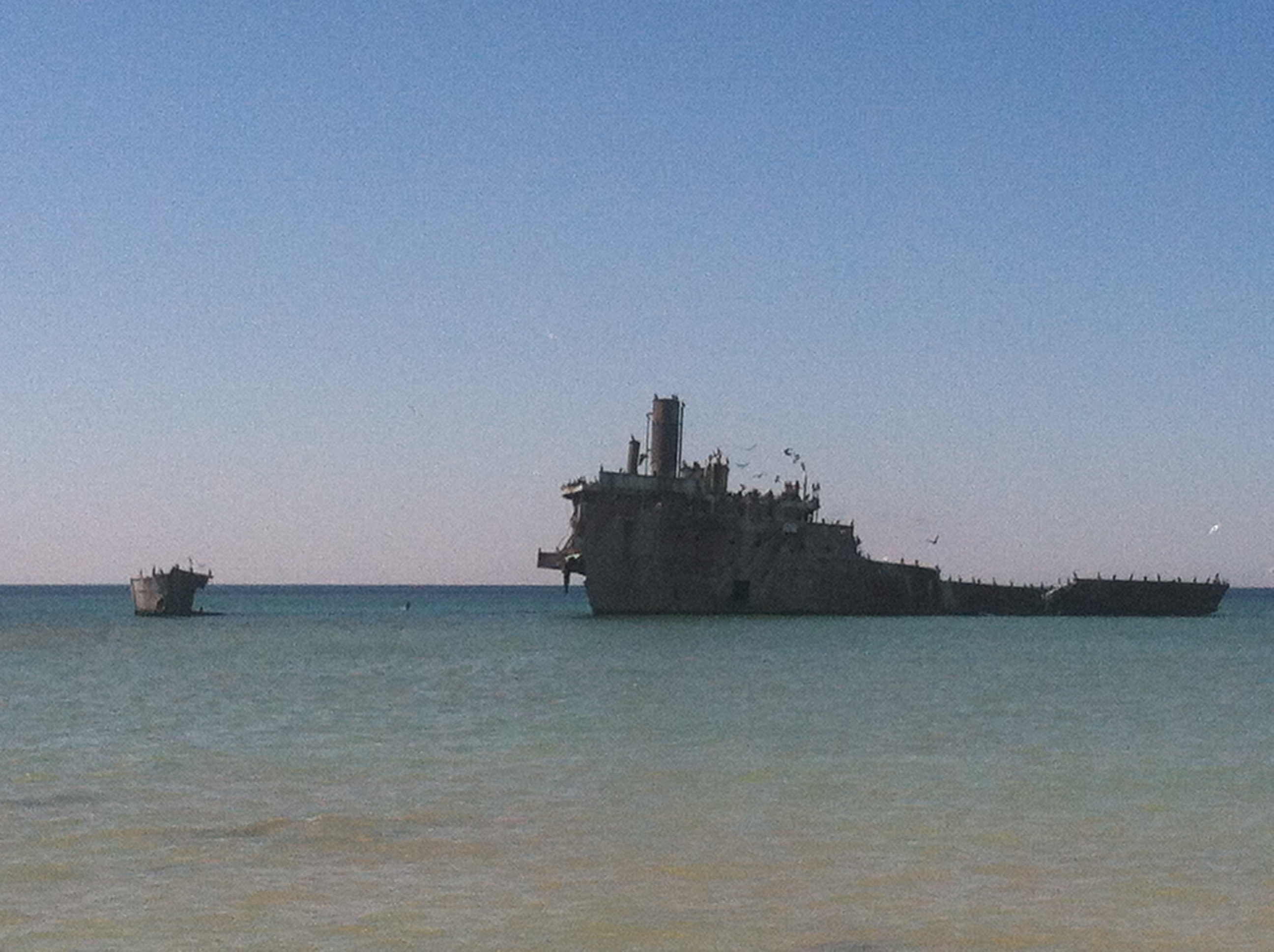 Photo of the wreck of the Francisco Morazan.